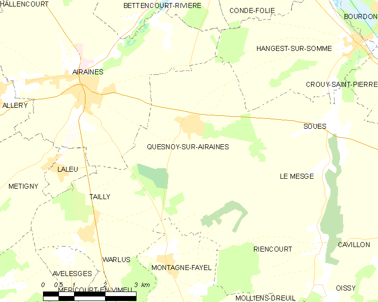 Map of French municipality Quesnoy-sur-Airaines